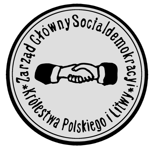 Reconstruction of the original seal used by the Social Democracy of the Kingdom of Poland and Lithuania. An image of the original seal can be found in the book 'Postacie z przełomu wieków: z kręgu działaczy SDKPiL' (1983) by N. Michta and J. Sobczak, p. 137. Author and the precise date of the creation of the seal is unknown.